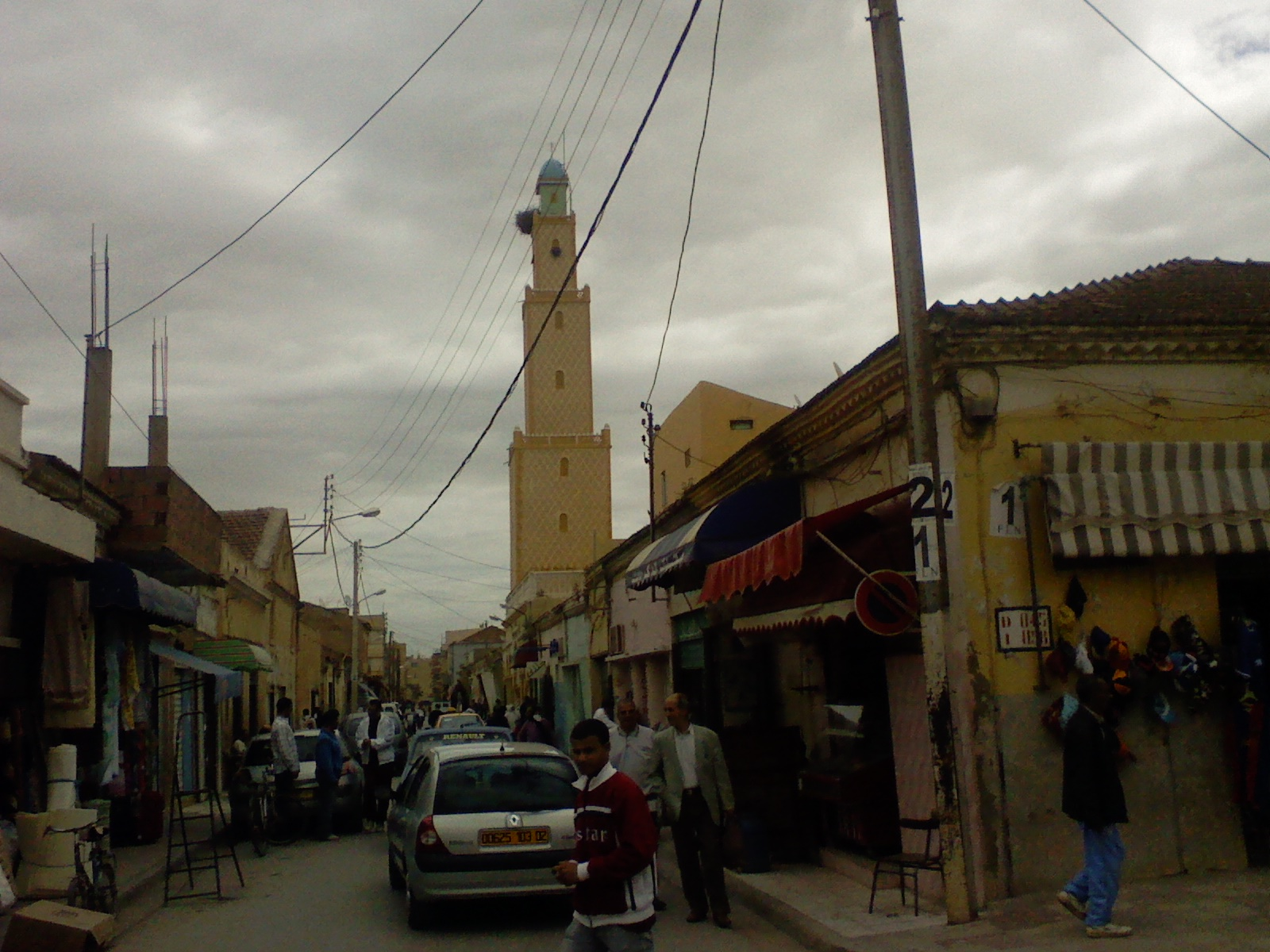 Mohammadia, Mascara Ville en Algérie